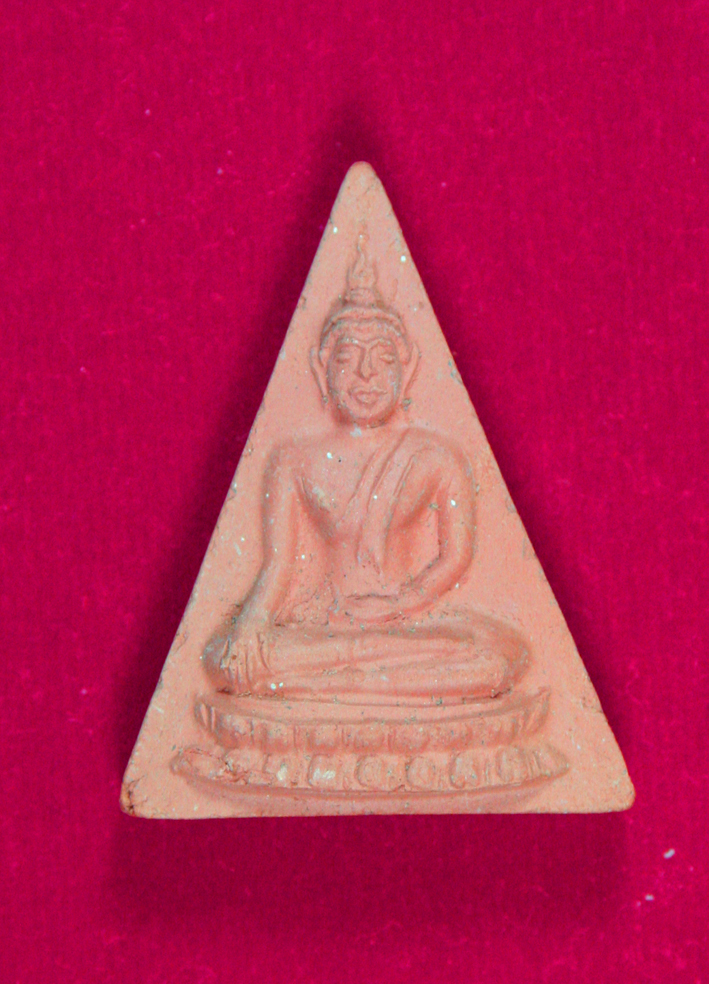 พระพิมพ์ สมเด็จพระแก้วมณีโชติ เนื้ออิฐ พิมพ์ใหญ่